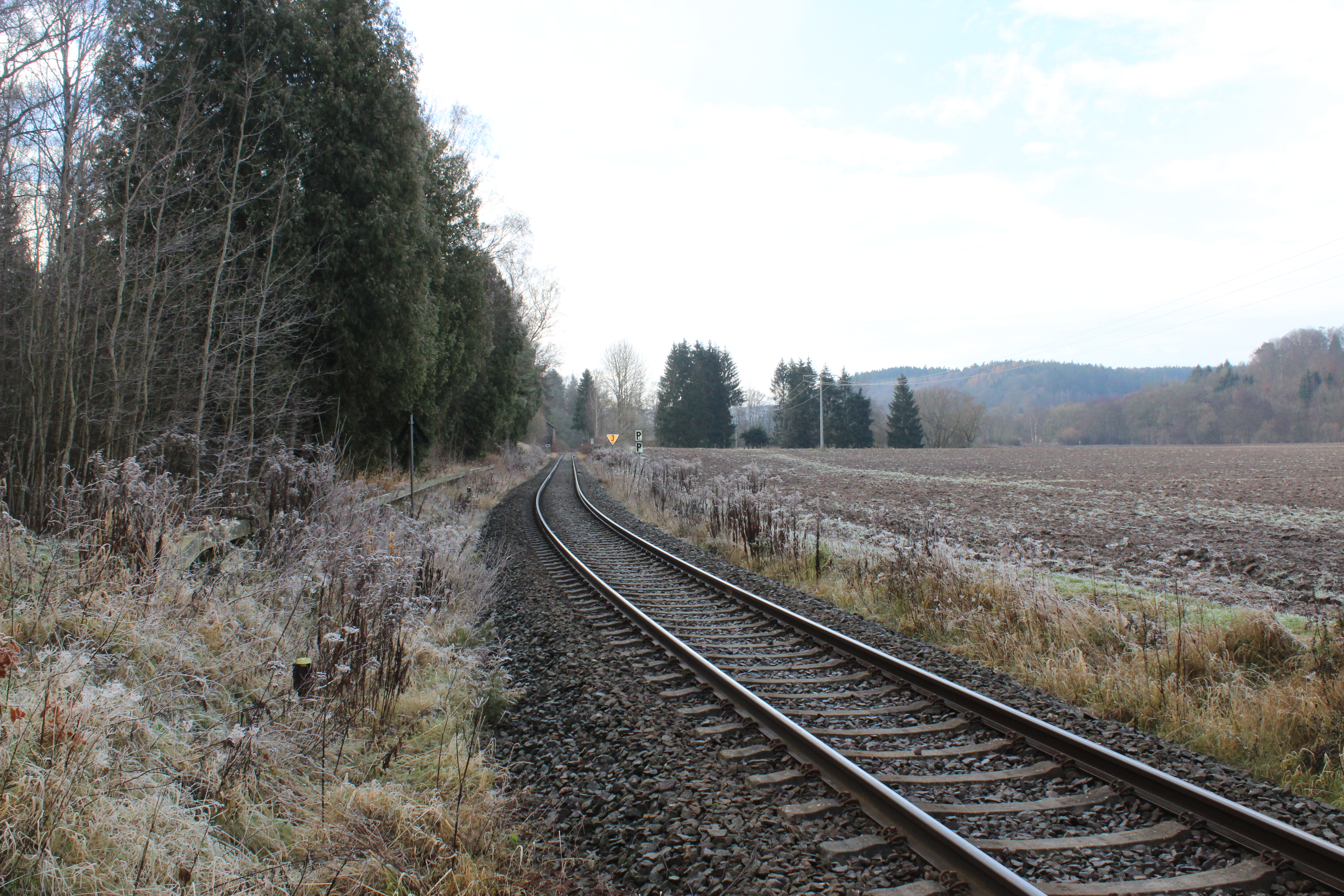 railway Weimar-Kranichfeld near to München